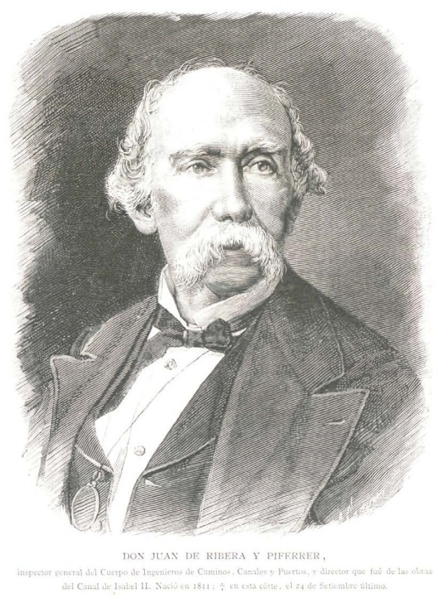 Juan de Ribera y Piferrer, inspector general del cuerpo de ingenieros de Caminos, Canales y Puertos y director que fue de las obras del Canal de Isabel II, Nació en 1811. Falleció en esta corte, el 24 de septiembre último.